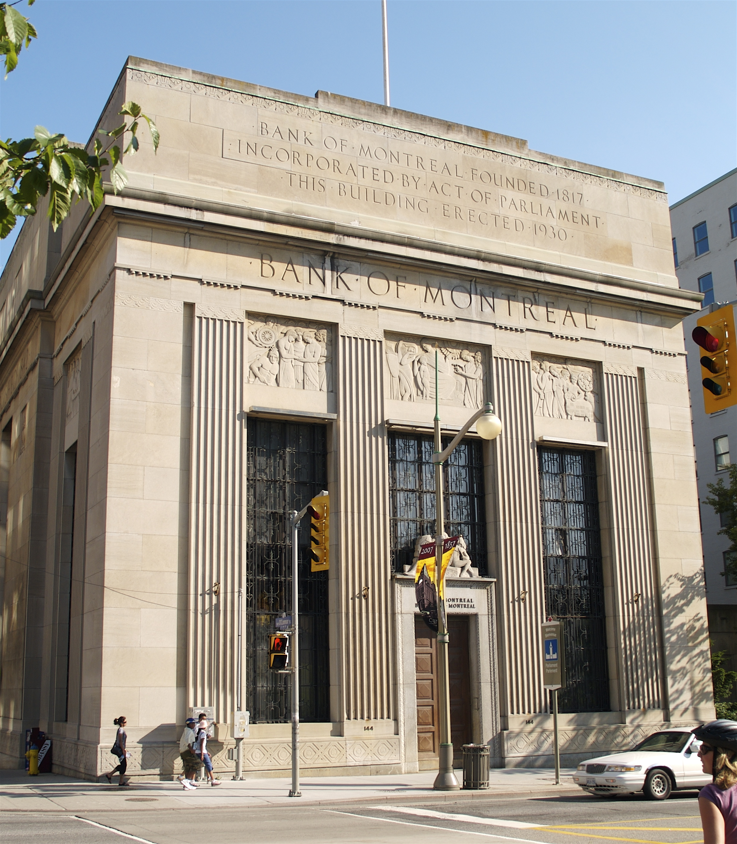 The Sir John A. Macdonald Building, Wellington Street, Ottawa, Canada. Formerly a Bank of Montreal branch, the government announed in 2011 that the building would be restored and expanded and would serve to host ceremonial events and large meetings for Parliament.